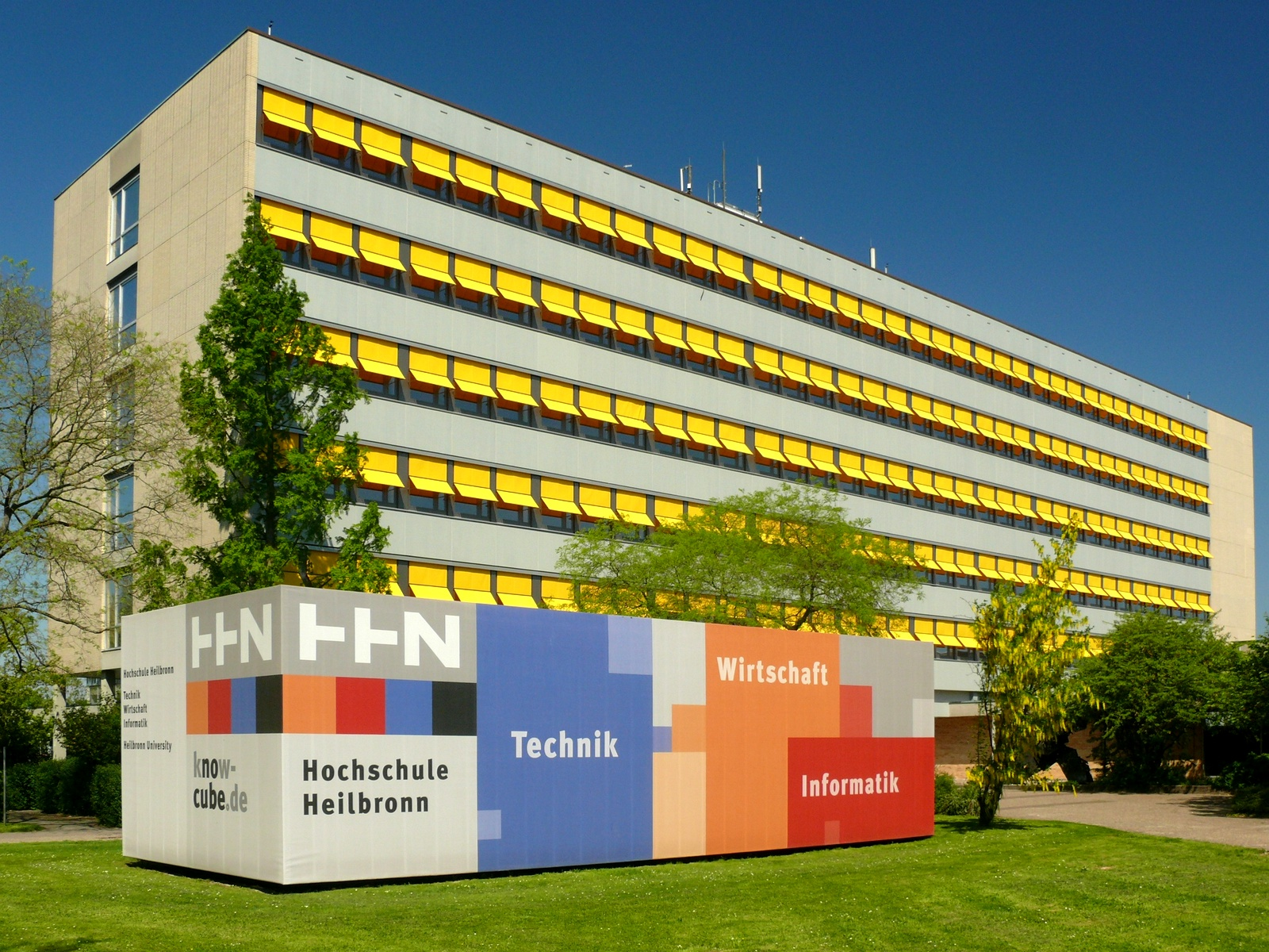 Heilbronn University: Building A and Know Cube